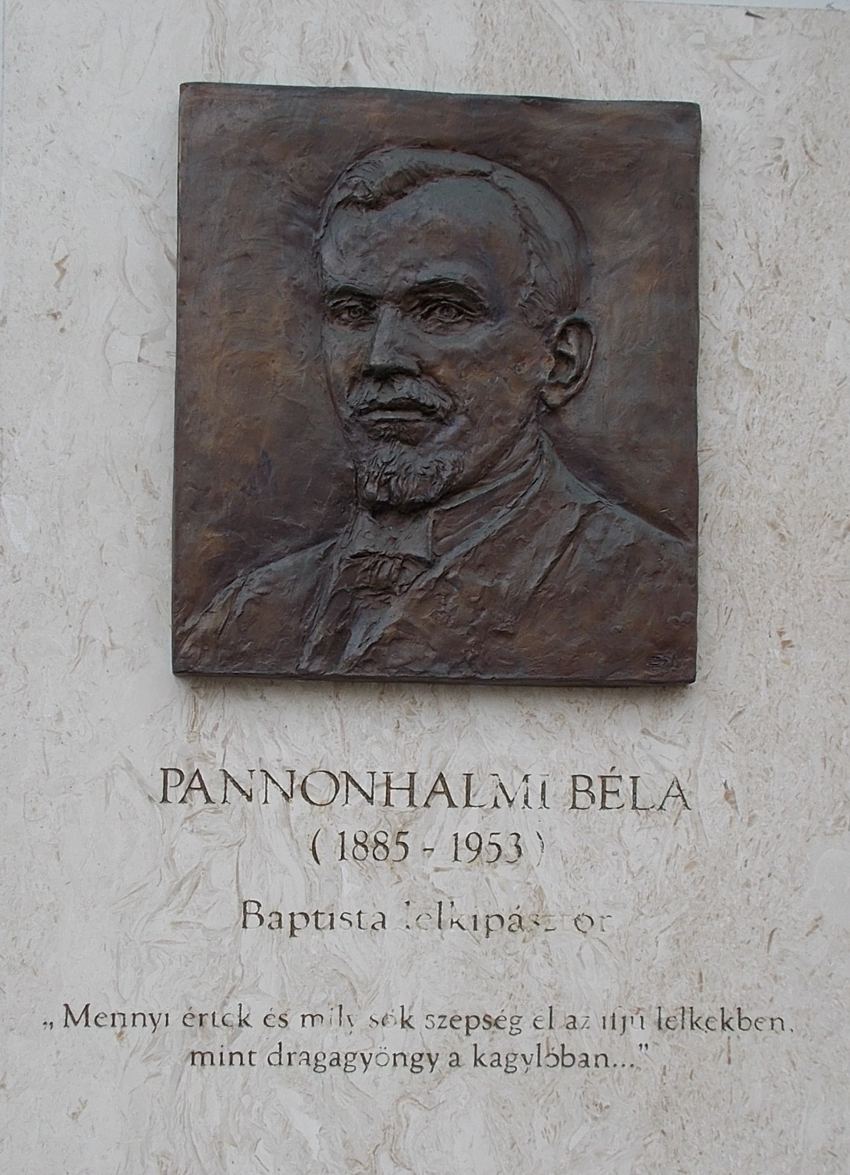 Pannonhalmi Béla baptist elementary School, Béla Pannonhalmi by Ildikó Zsemlye (2016 bronze relief on marble plaque). - 7B Kőér street, Óhegy neighborhood, 10th District of Budapest.